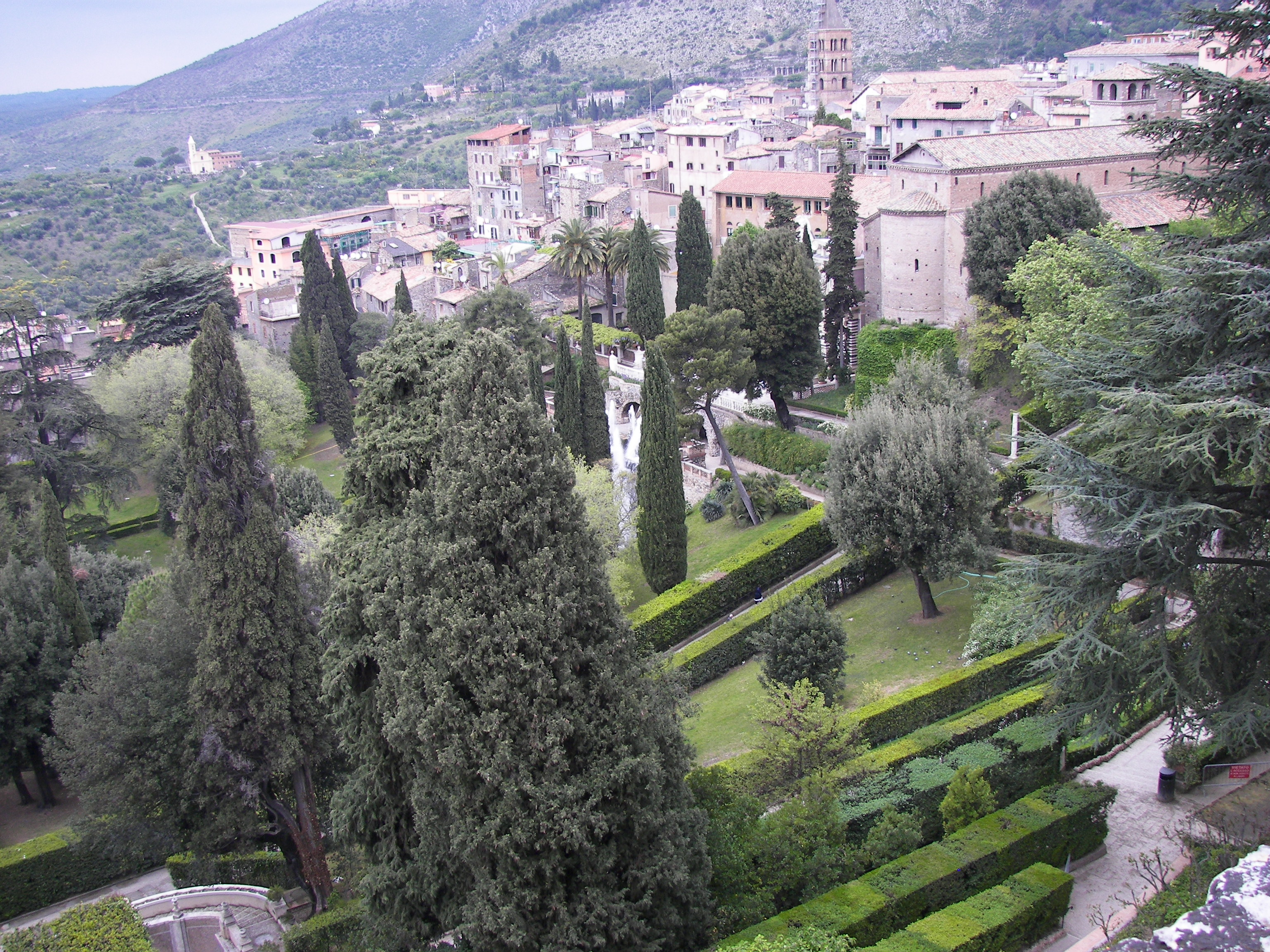 Garden at Villa d'Este with Tivoli in the background.